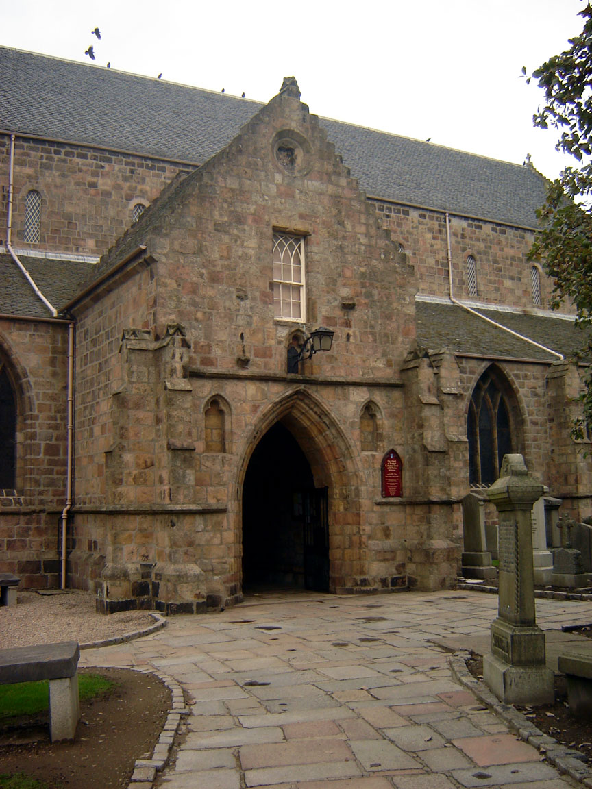 Entrance to St. Machars Cathedral, Aberdeen, Scotland. I created this file- User:Mike Christie Category:Aberdeen